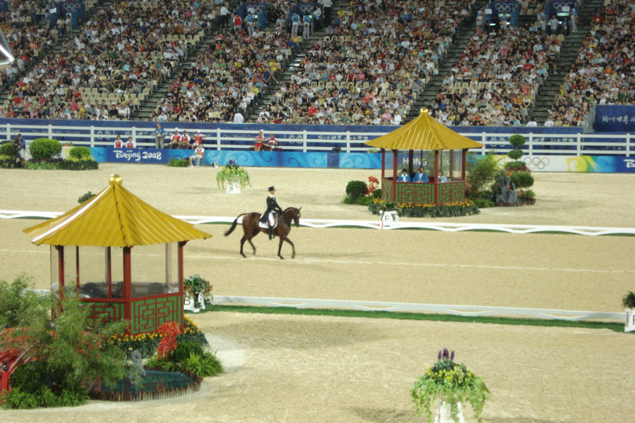 The Hong Kong Olympic Equestrian Venue (Sha Tin)